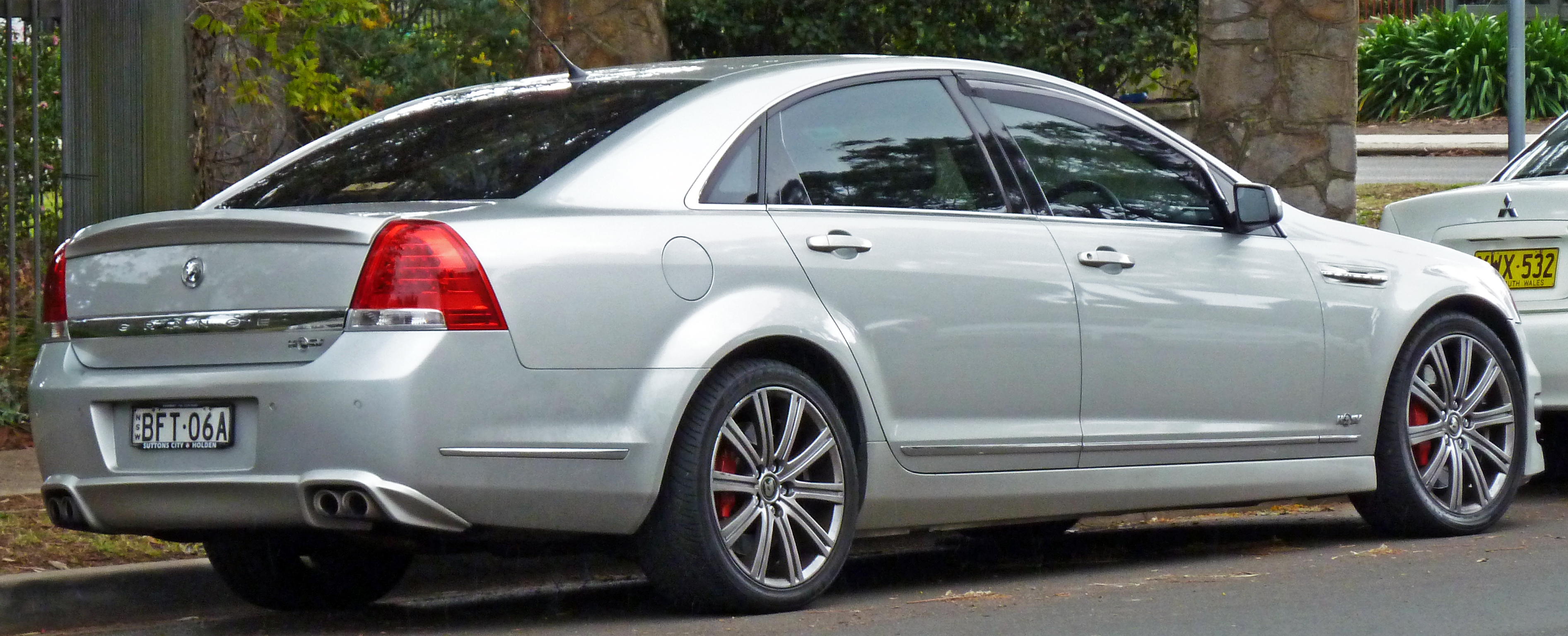 2008 HSV Grange (E Series MY09) sedan. Photographed in Gymea, New South Wales, Australia.